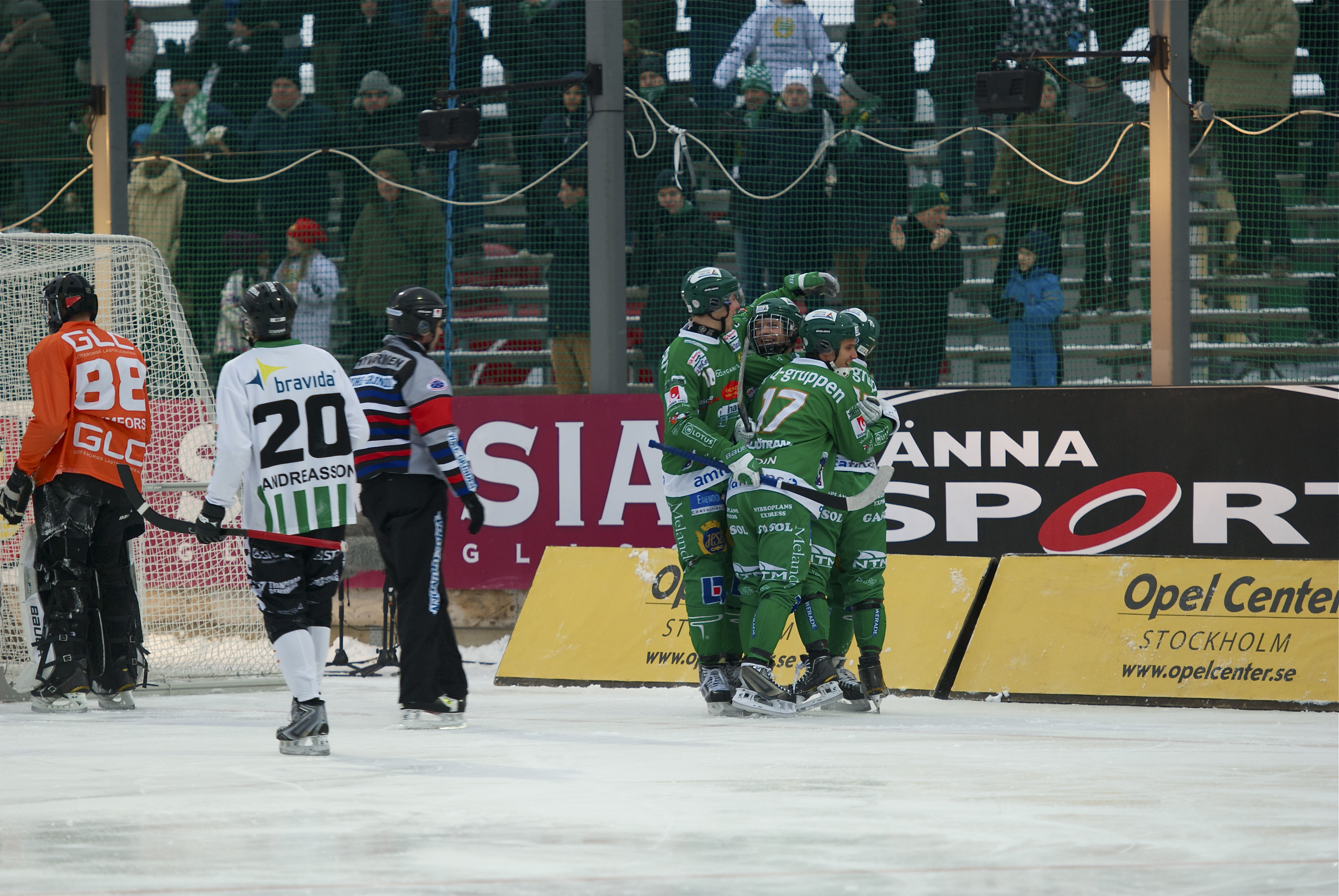 Bandy match between Hammarby (Green) and GAIS (White) in Elitserien, Zinkendamms IP (Stockholm) 2012-02-11. Hammarby celebrates the first goal.